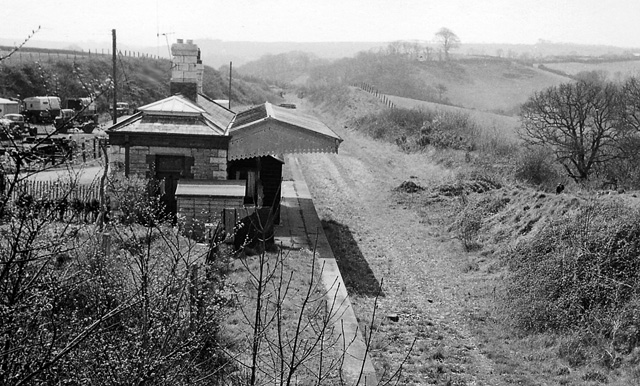 Brixton Road Station (remains). View southward, towards Yealmpton; ex-GWR Plymouth - Plymstock - Yealmpton branch. The station and branch were closed finally to goods on 29/2/60, passenger services having ceased on 4/10/47. The passenger service on the branch had previously been withdrawn on 7/7/30, but was restored on 3/11/41 to cater for people displaced by the bombing of Plymouth.